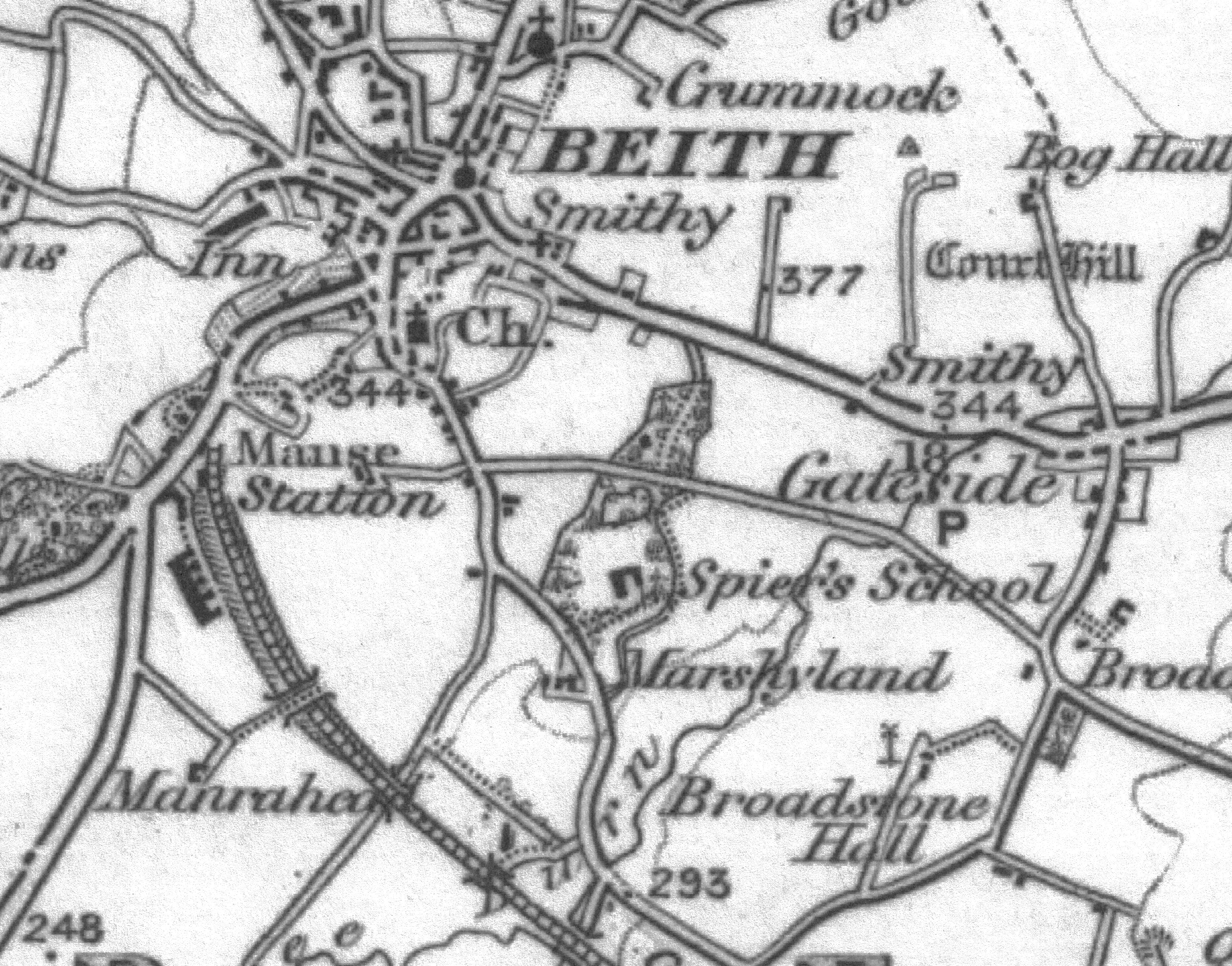 A map of Speir's school, Beith, Ayrshire, Scotland